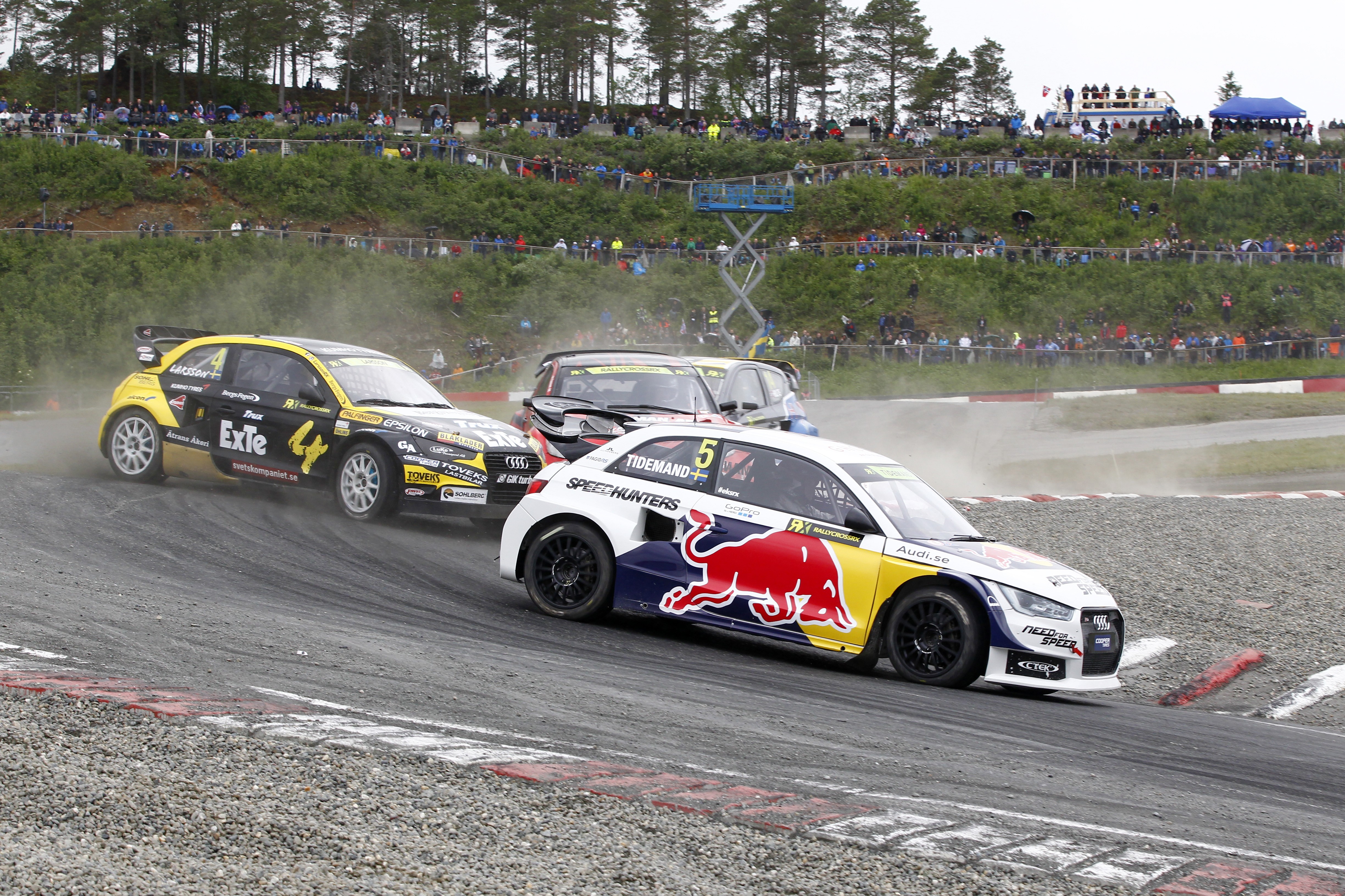 2014 FIA World Rallycross Championship Round 03 Hell, Norway 14th - 15th June 2014 Worldwide Copyright: EKS/McKlein